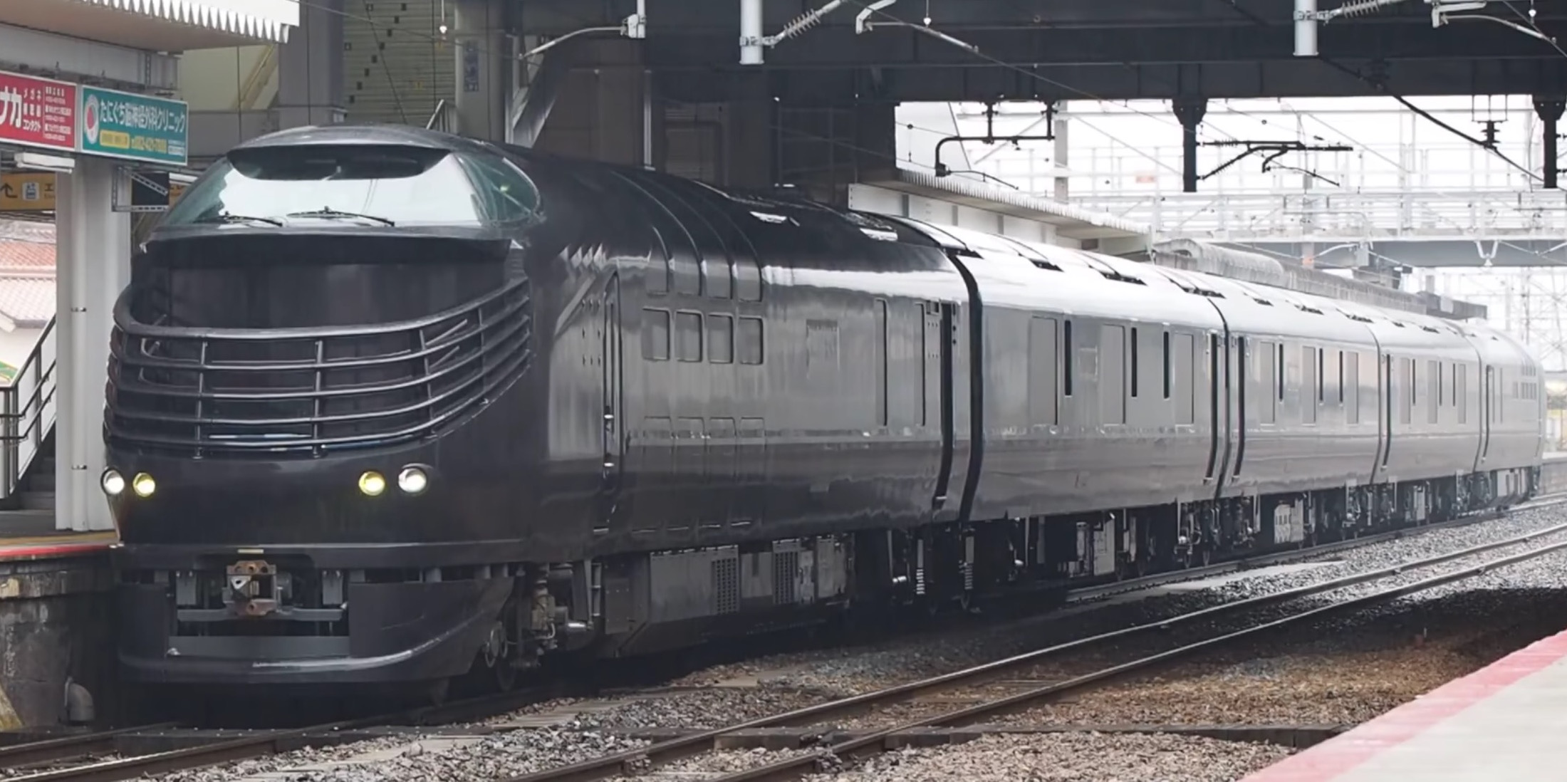 JR West Kiha 87 series Twilight Express Mizukaze hybrid DMU cruise train at Saijo Station on the Sanyo Main Line on a test run